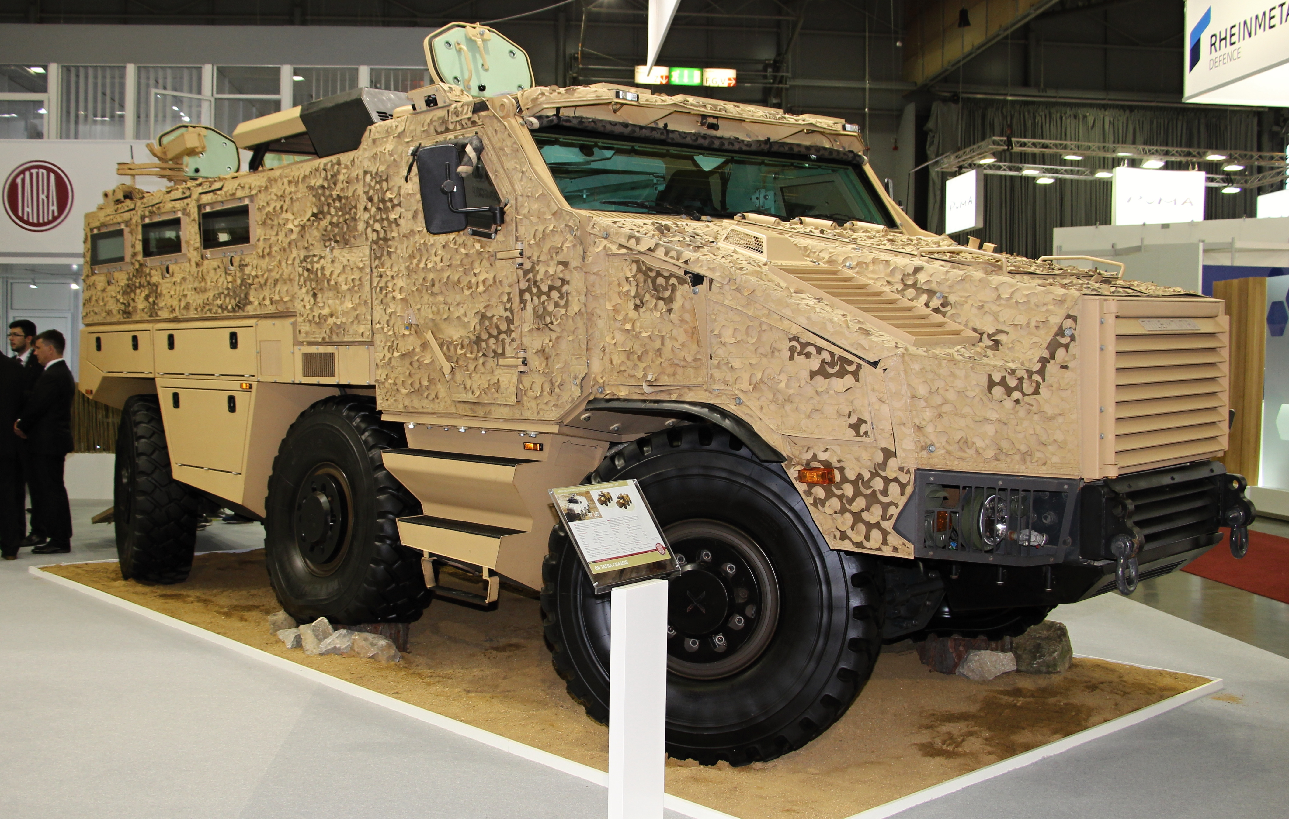 TITUS by NEXTER on TATRA chassis, IDET 2017, Brno Exhibition Center, Czech Republic